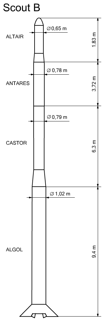 Scout B scheme